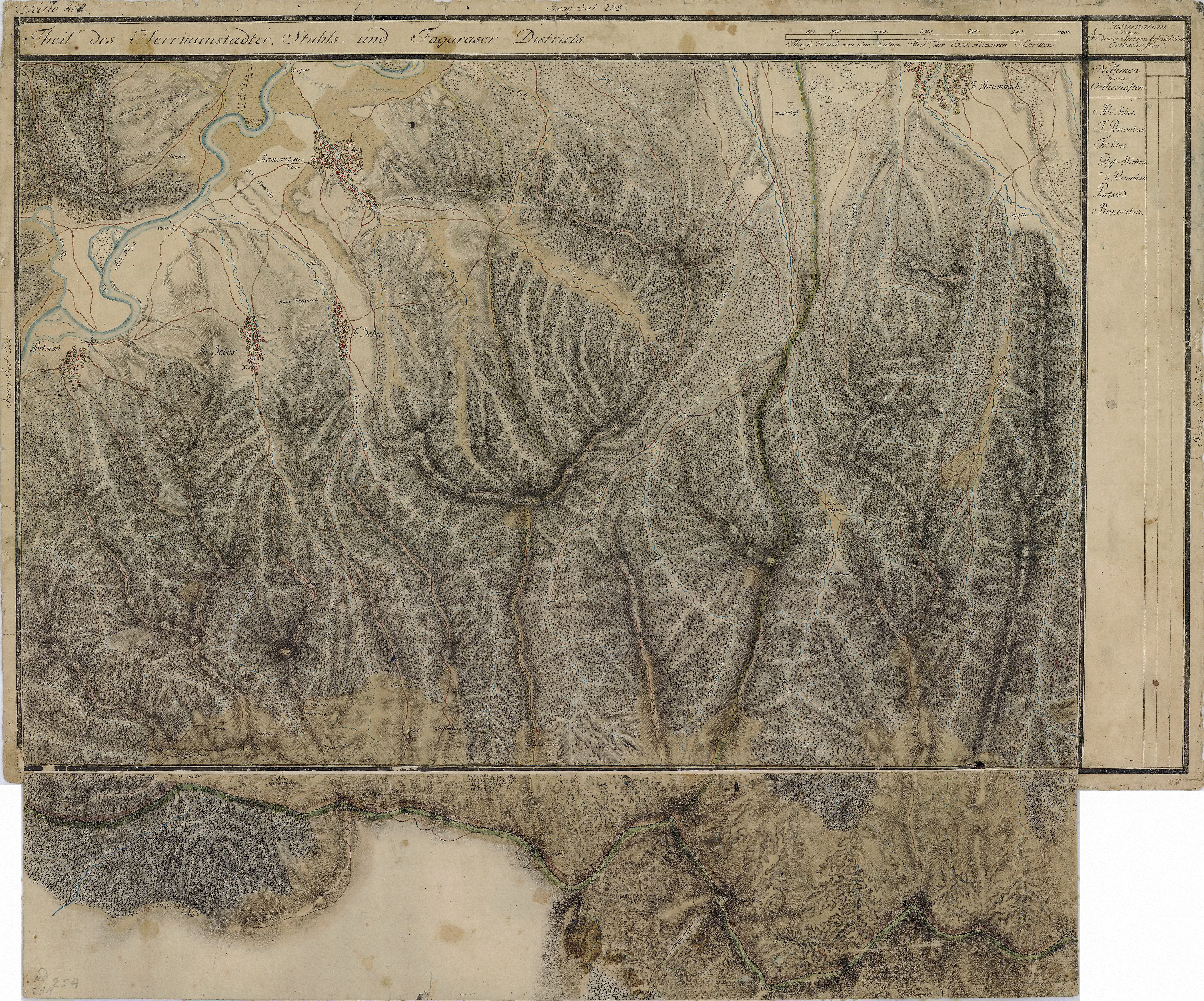 Grand Duchy of Transylvania, 1769-1773. Josephinische Landaufnahme pg.254